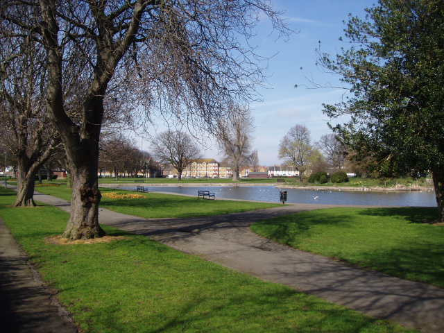 The Memorial Park in Herne Bay, Kent